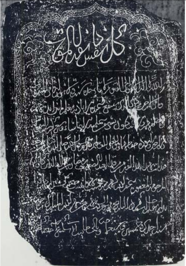 Epitaph of Ramadan ibn Alauddin, first named Muslim from Korea, located in the cemetery of Huaisheng Mosque, Guangzhou. Arabic in center, Classical Chinese in the margins. Arabic: [Qur'an 3:185, followed by the Throne Verse] The Messenger of God said long ago, "He who dies in a foreign land dies as a martyr." This grave is where Ramaḍān ibn Alāʼ ud-Dīn, having died, has returned. May God forgive him and have mercy upon him and [illegible]. [illegible] who has visited Aleppo writes in the date of Rajab [illegible] in the year 751 [September 1450], blessed by God.